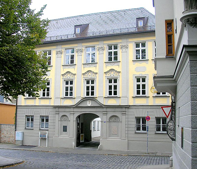 Peutinger house (Augsburg, Peutingerstr. 11, Bavaria, Germany). View from the north